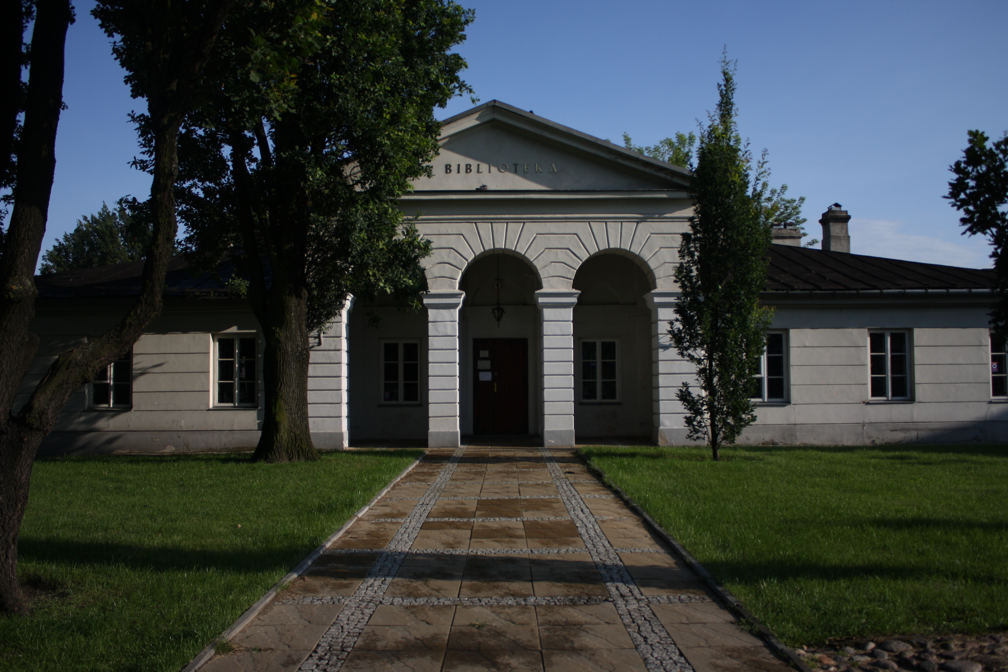 Corps de garde in Siedlce, nowadays City Library